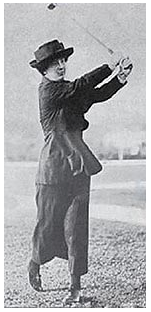 English amateur golfer Elsie Grant Suttie, c. 1905